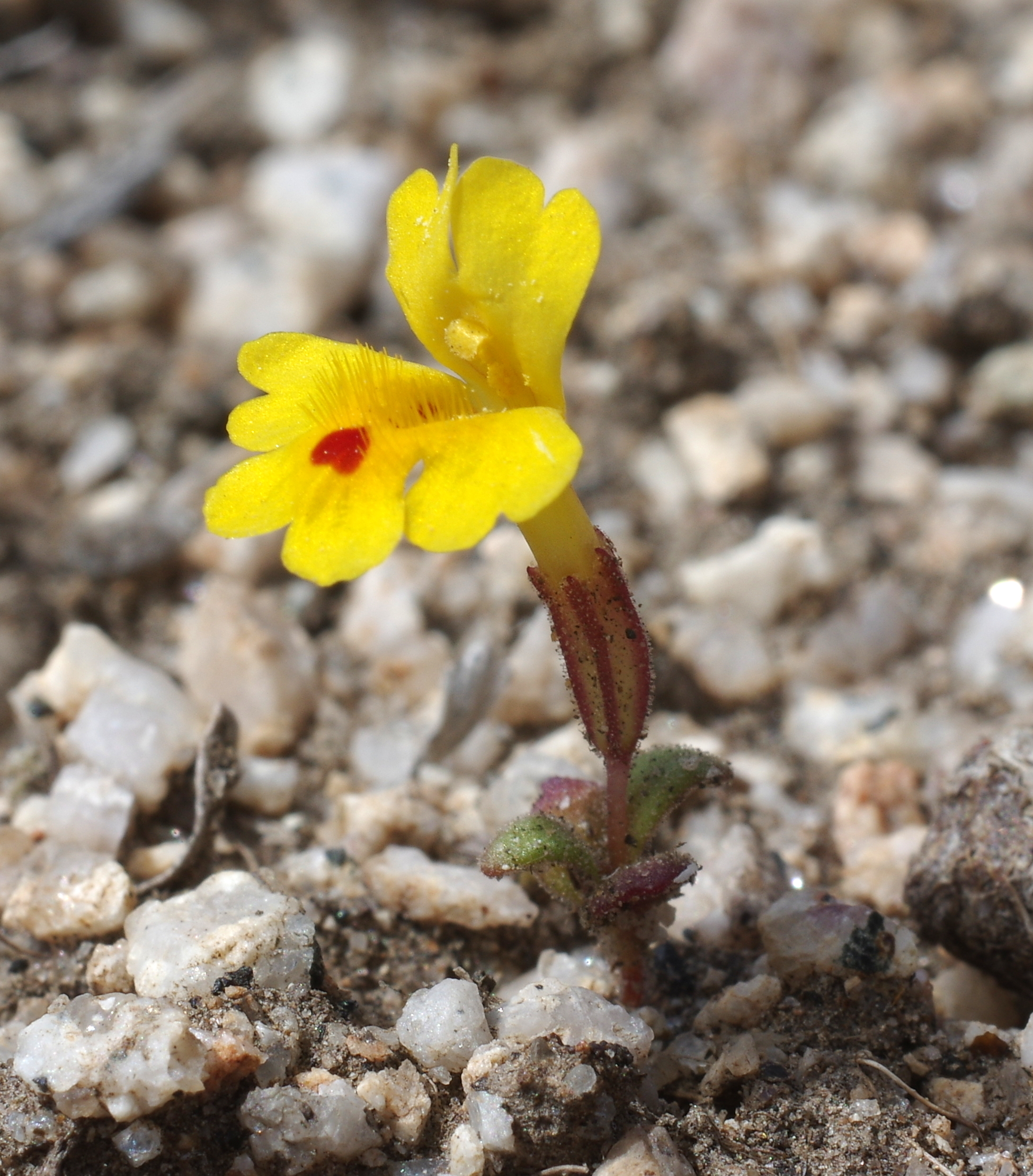 A small specimen of the Carson Valley monkeyflower (Erythranthe carsonensis) near Carson City, NV.